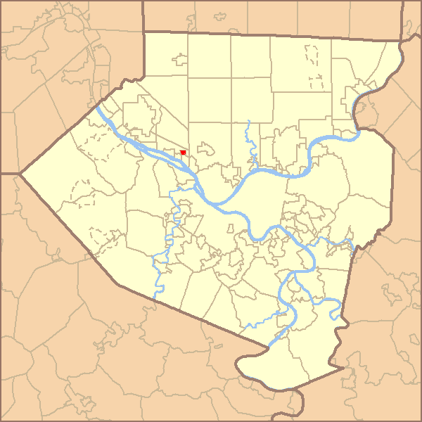 Map highlighting the municipality within Allegheny County, Pennsylvania.